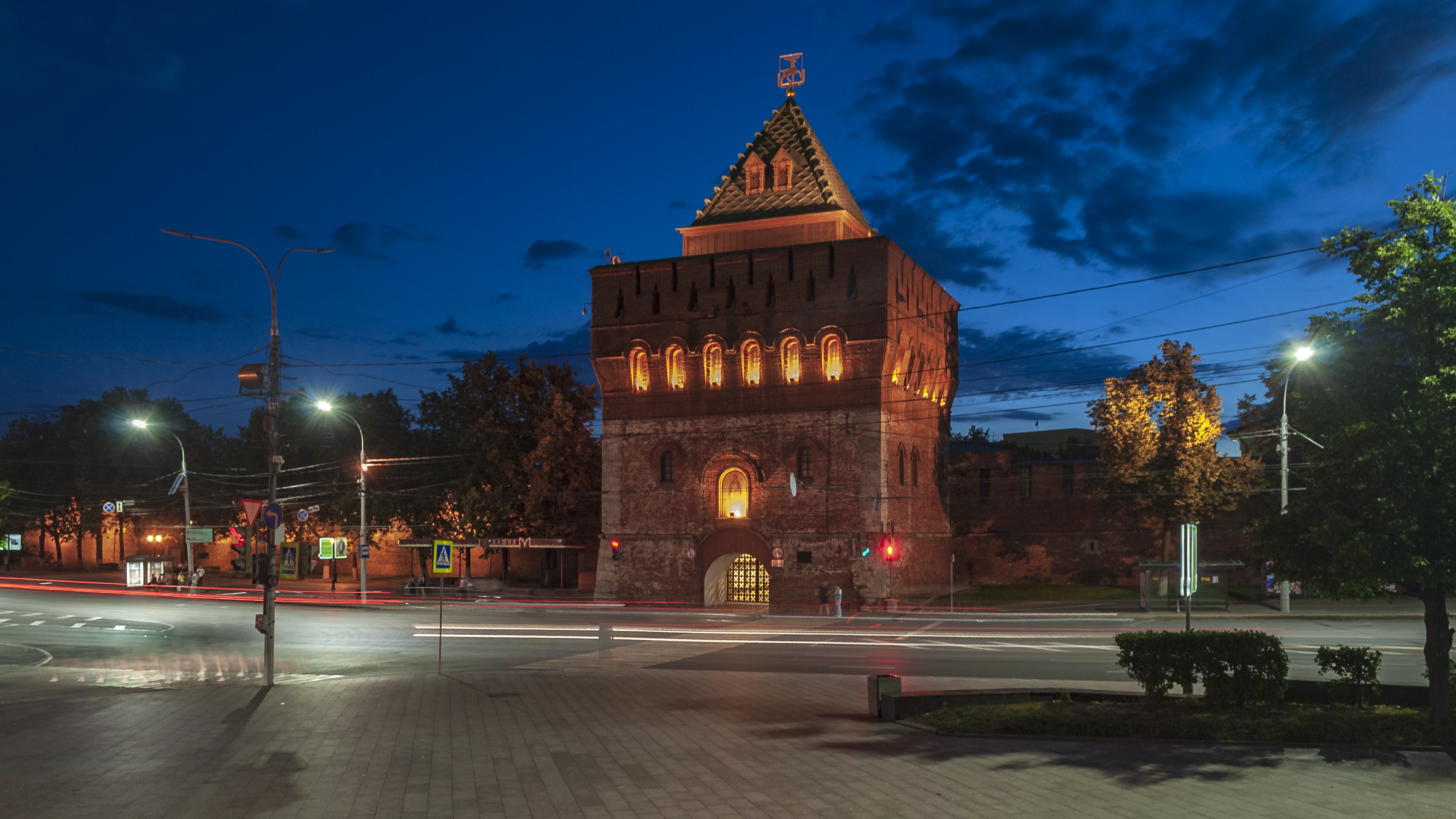 Dmitrovskaya tower of the Nizhny Novgorod Kremlin at night